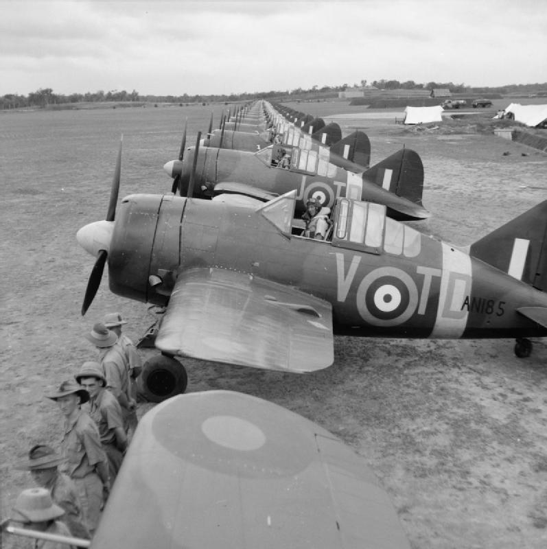 Buffalo Mark Is of No. 453 Squadron RAAF, lined up at Sembawang, Singapore, on the occasion of an inspection by Air Vice Marshal C W H Pulford, Air Officer Commanding Royal Air Force Far East.